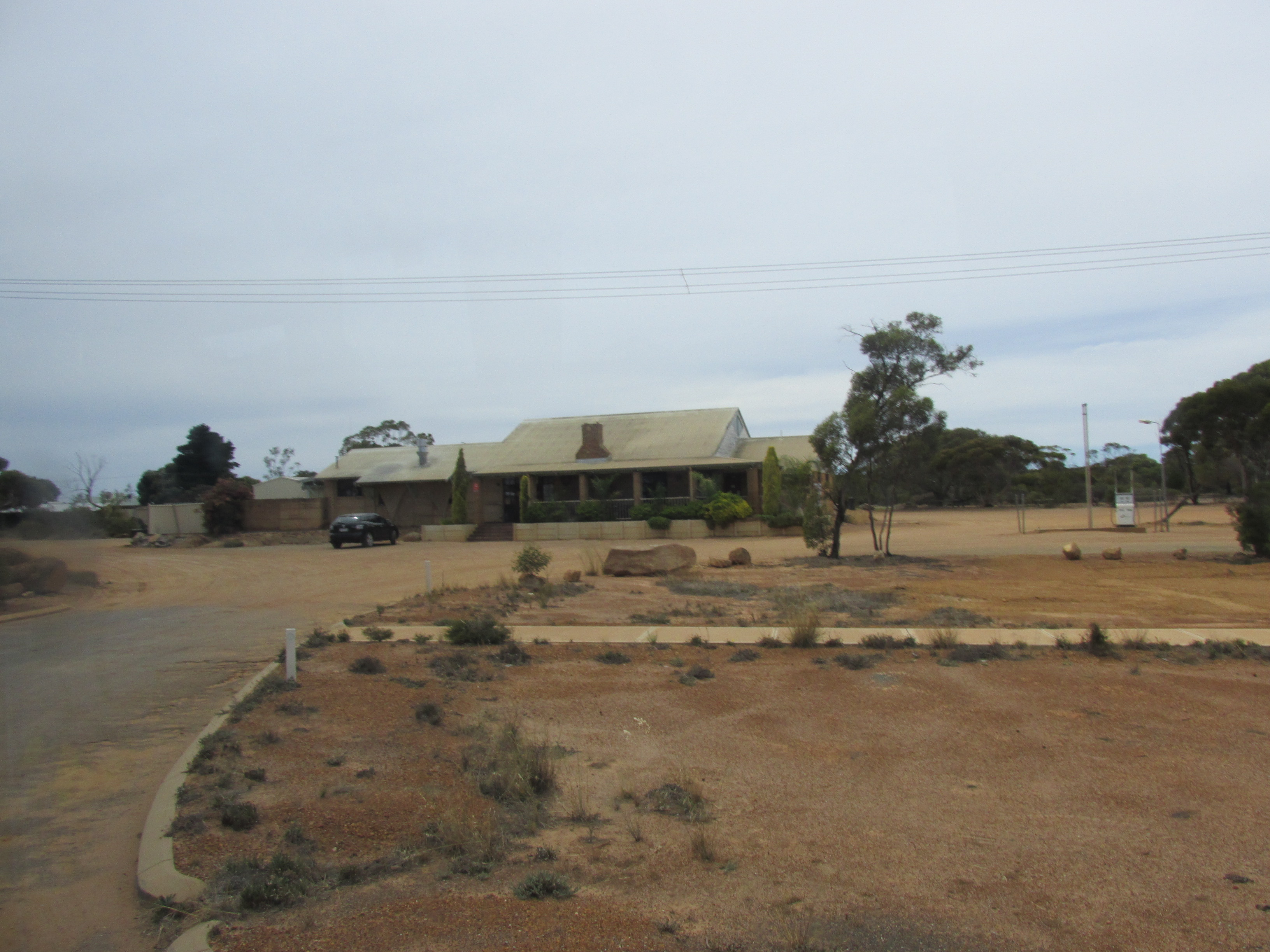 Lake King Tavern in Lake King, Western Australia